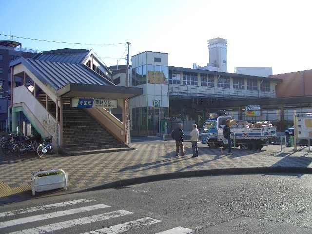 Minami-Rinkan Station east exit, on the Odakyu Enoshima Line, Yamato, Kanagawa 南林間駅